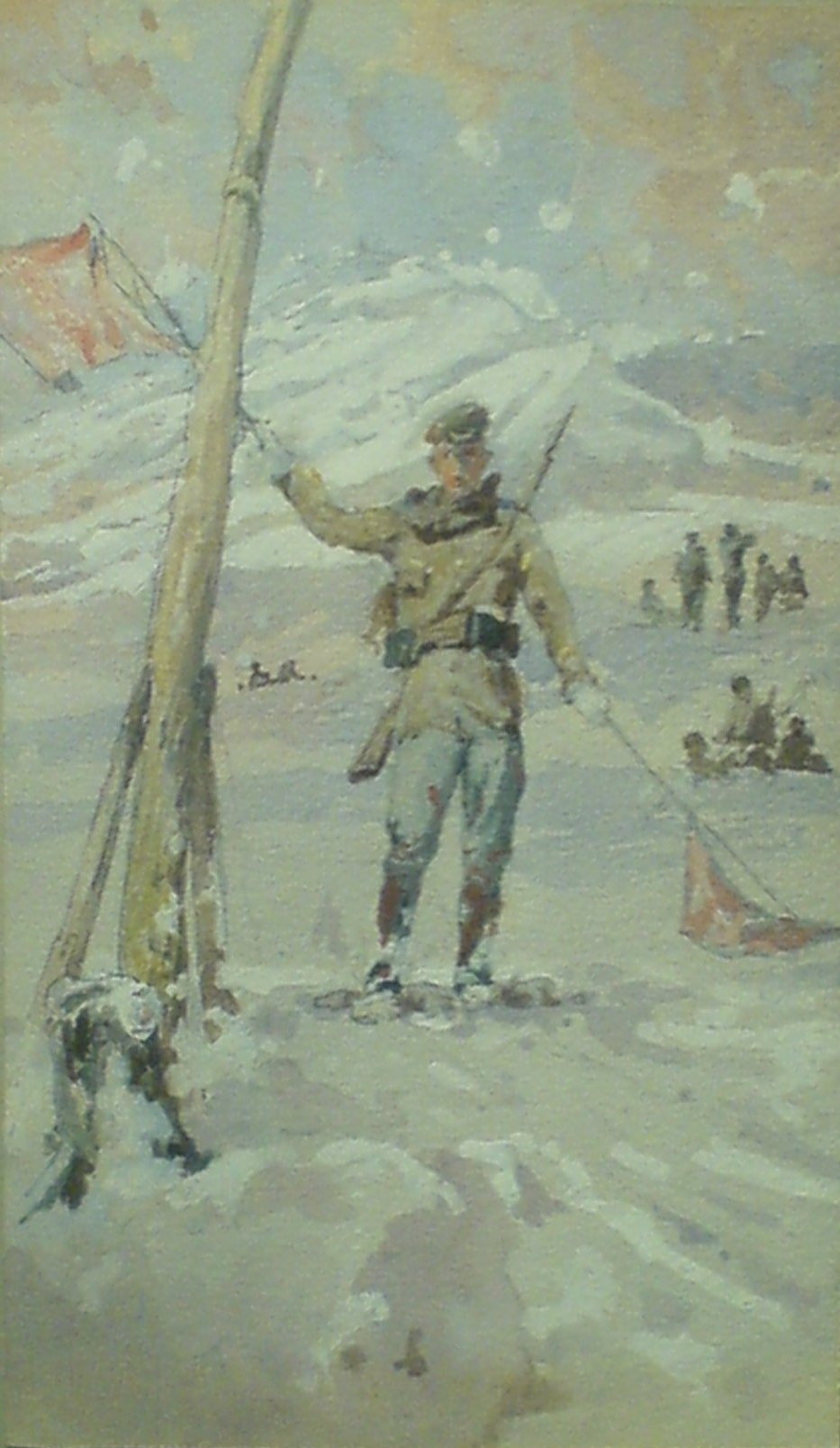 Russian Silesian Offensive November 1914